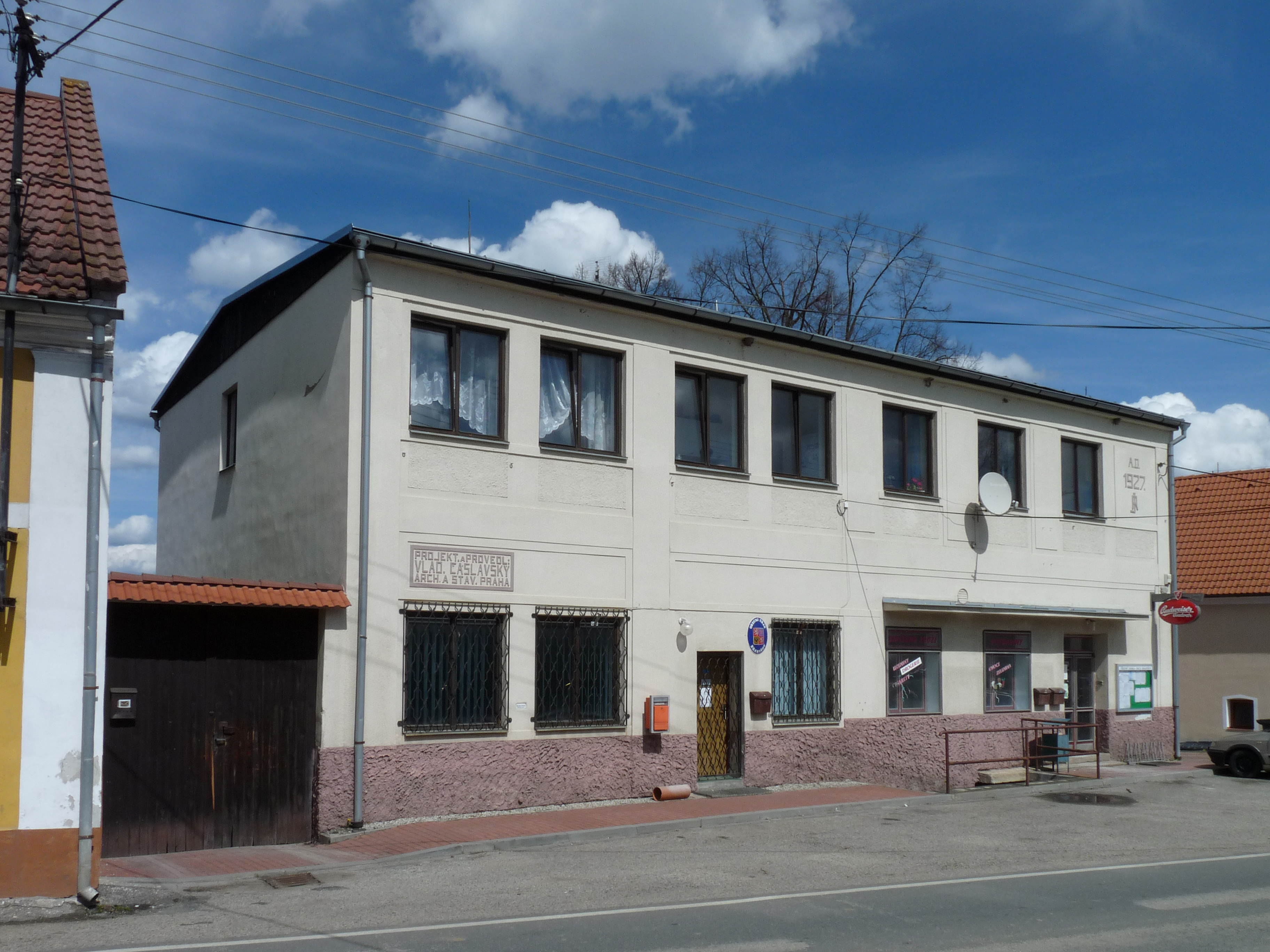 Municipal office building, house No 5 in Branišov, České Budějovice, Czech Republic.